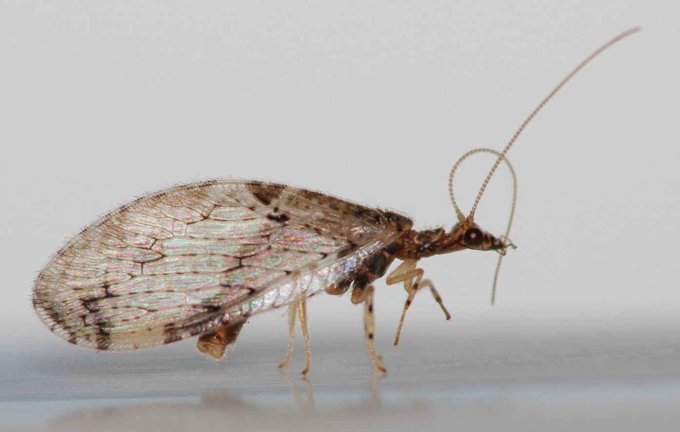 Micromus africanus, a brown lacewing. Wing length is 7 mm. Location: Pietermaritzburg. LacewingMAP record no. 9733